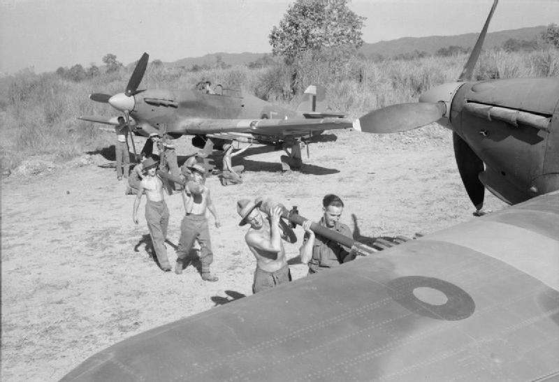 Royal Air Force Operations in the Far East, 1941-1945. Armourers fit rocket-projectiles to Hawker Hurricane Mark IVs of No. 170 Wing in a dispersal on an airfield in Burma.